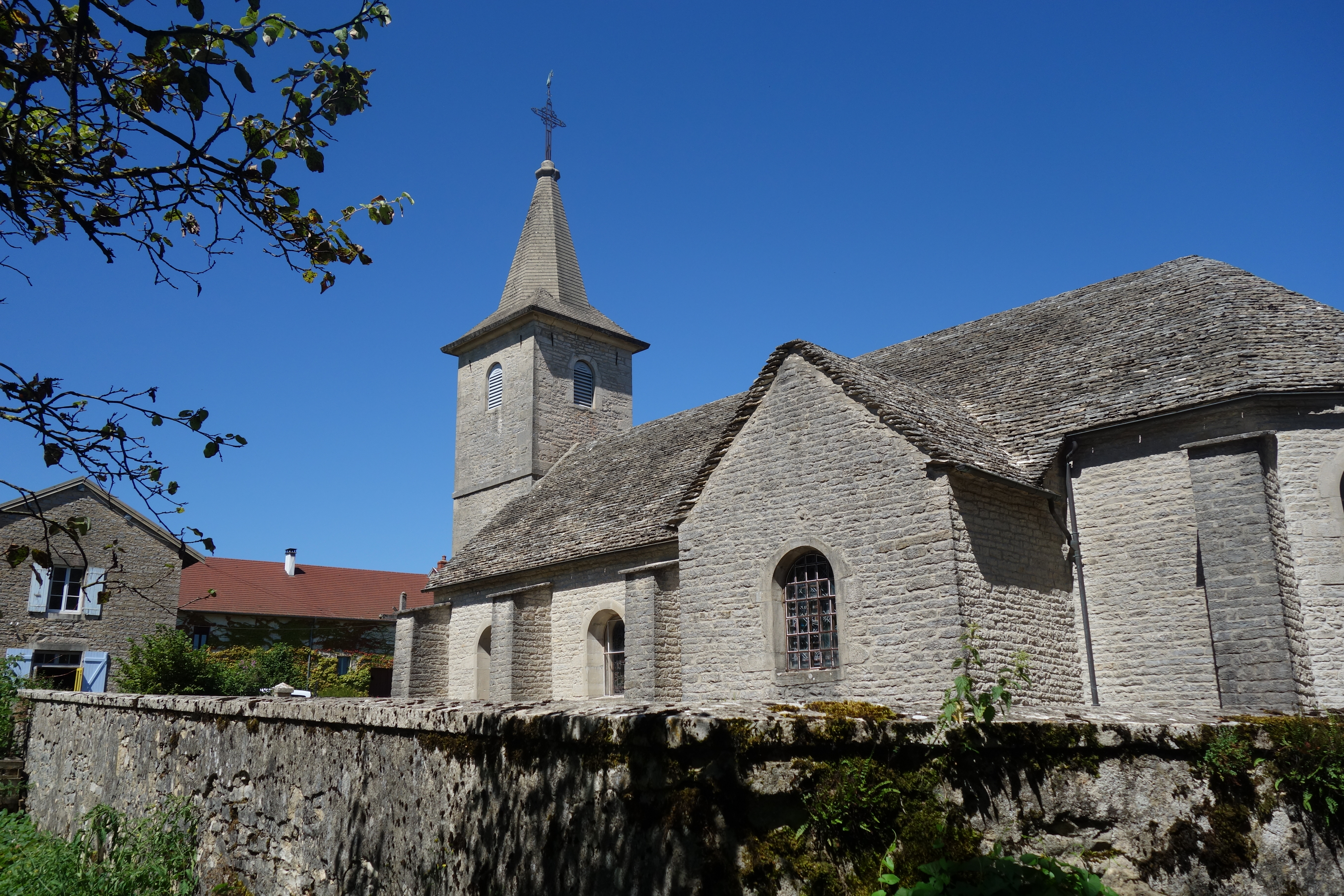 Saint-Antoine church in Granges-sur-Baume